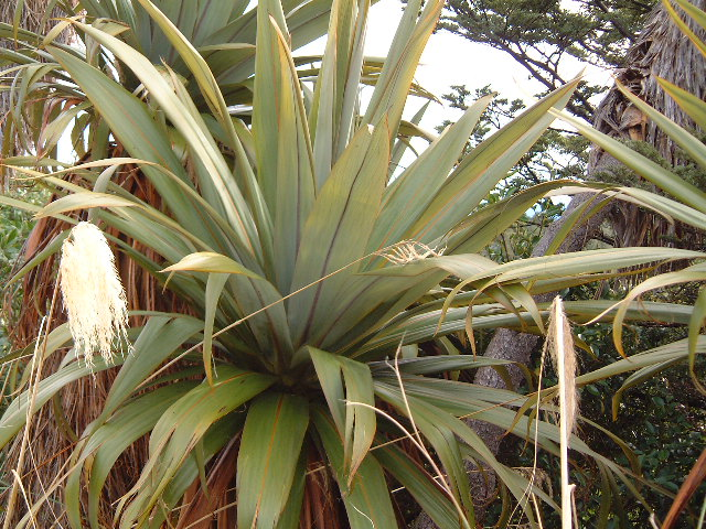 Cordyline indivisa on Mt. Ruapehu, June 2002